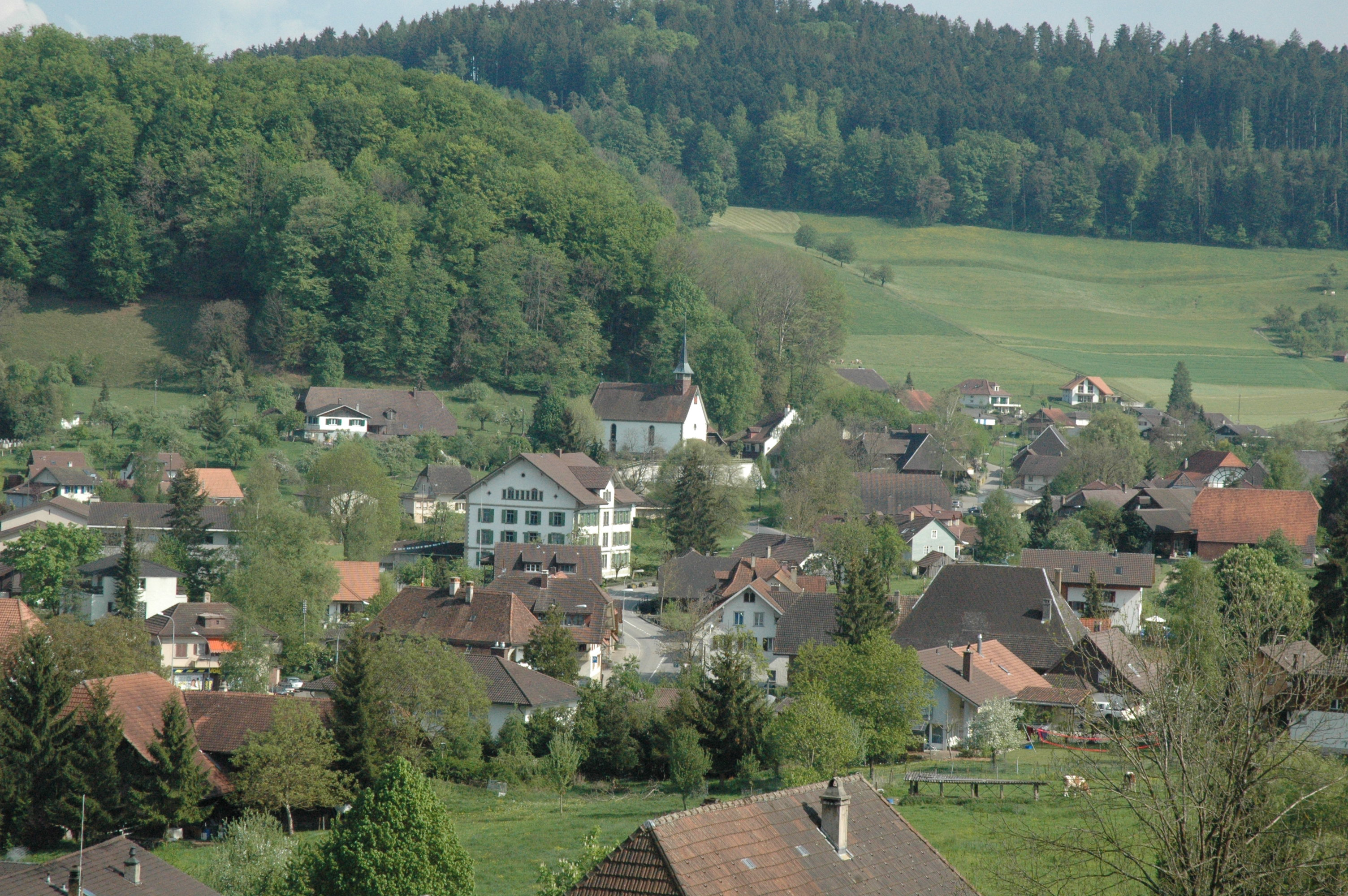 Melchnau (Switzerland), general view of village center, with church and school buildings standing out